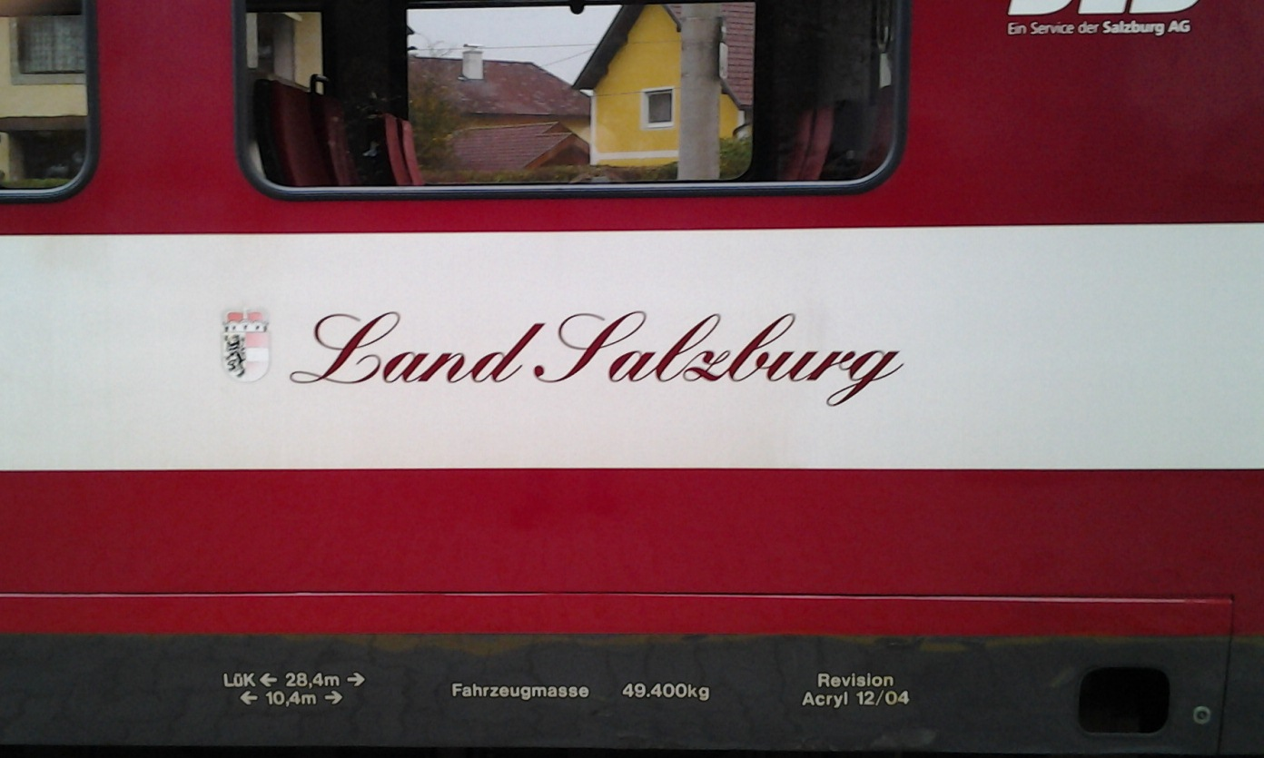 Name and coat of arms of the state of Salzburg as the name of a unit of the Salzburger Lokalbahn, a local railway line in the north of this federal state of Austria.